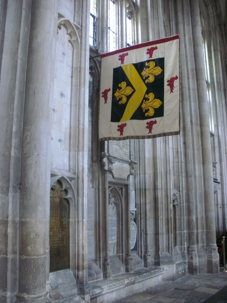 Winchester Cathedral, Field Marshal Lord Wavell's banner of a Knight Grand Cross of the Order of the Bath. Location: North wall of the Nave (looking east).